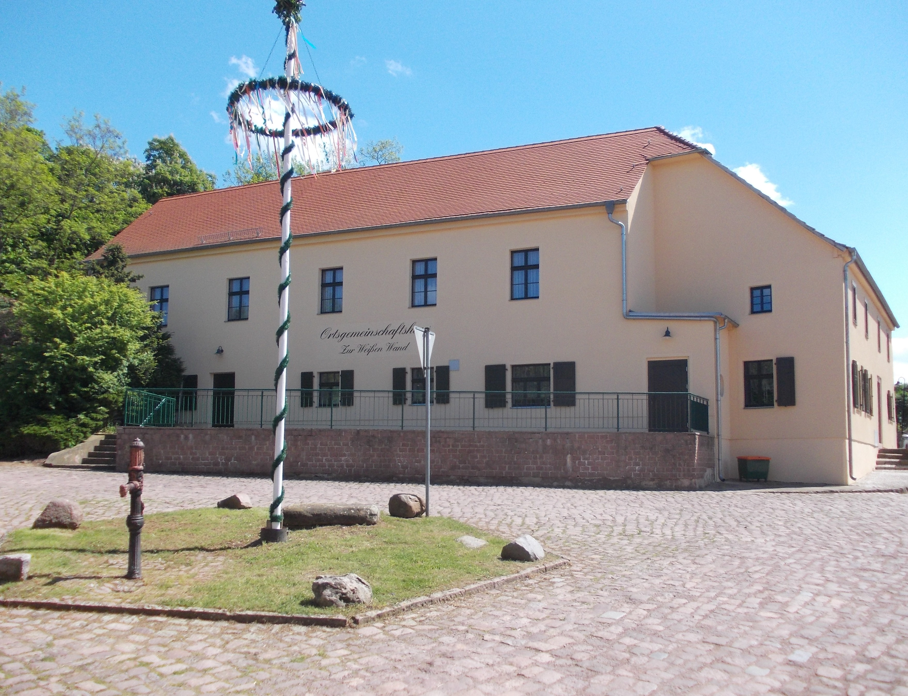 Village community centre in Dobis (Wettin-Löbejün, district: Saalekreis, Saxony-Anhalt)